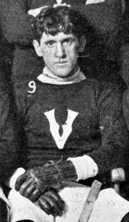 Ice hockey player Russell Bowie of the Montreal Victorias around 1905.